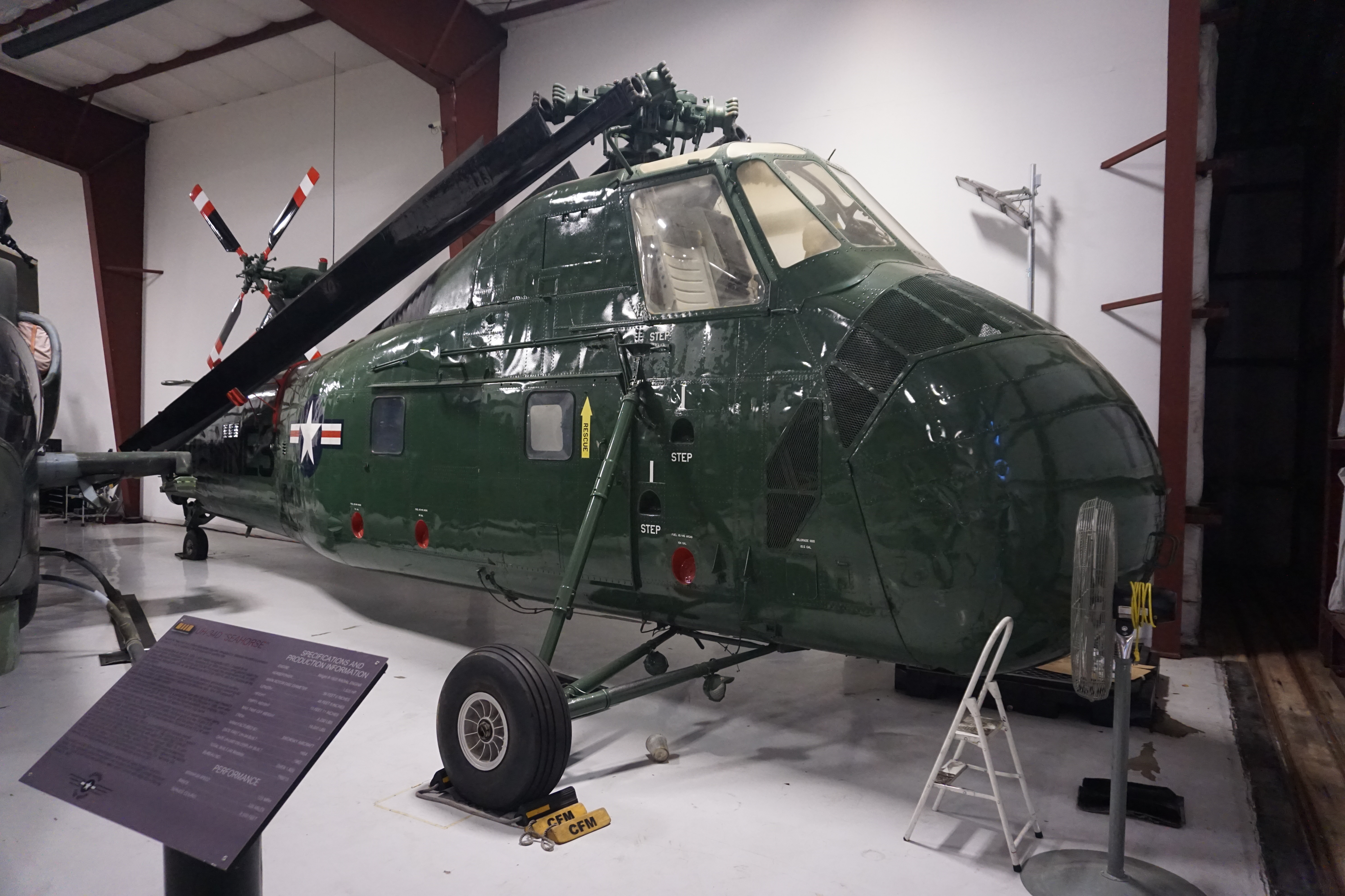 A Sikorsky UH-34D Seahorse on display at the Cavanaugh Flight Museum at Addison Airport in Addison, Texas (United States).